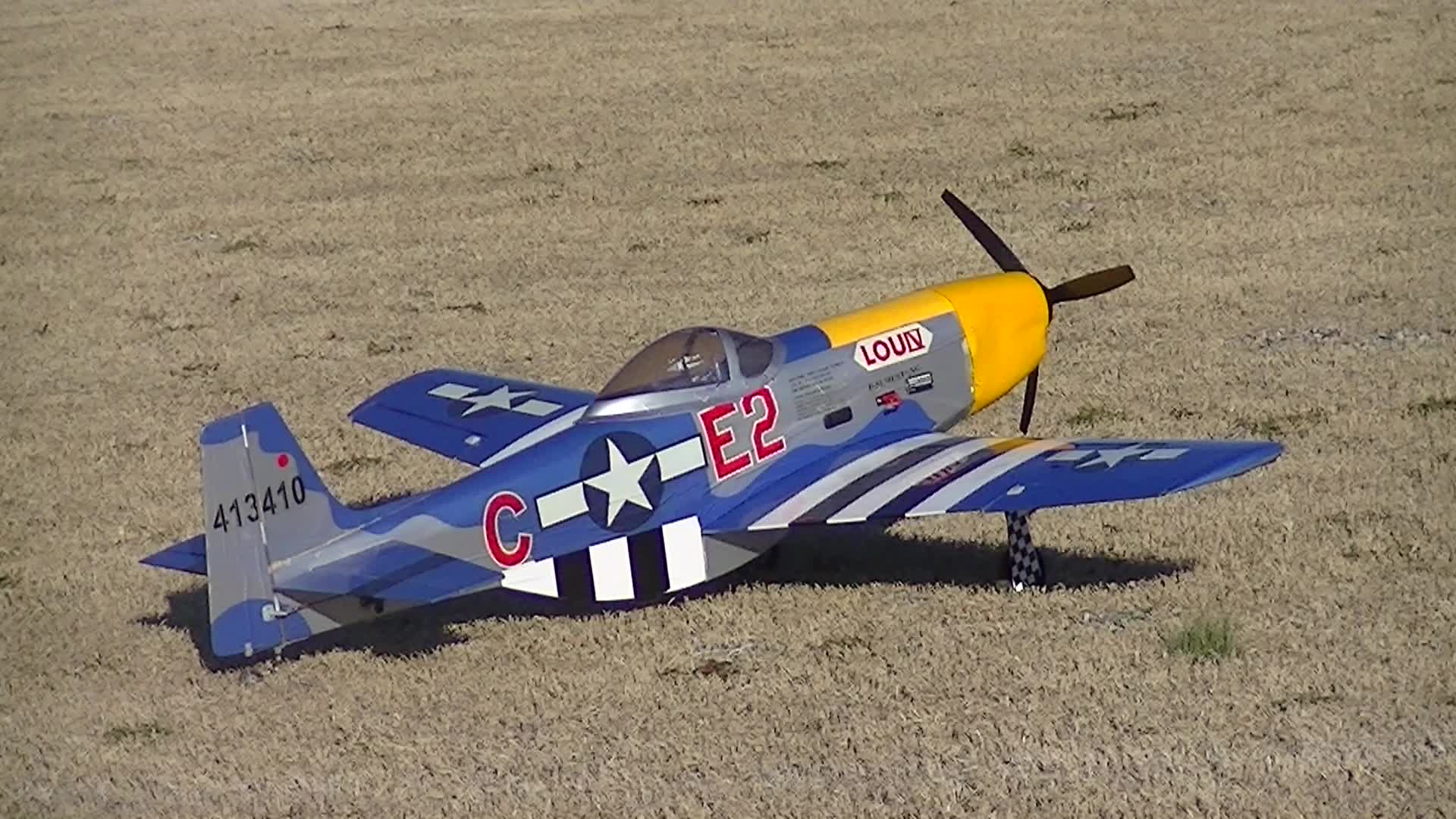 A large (~40 inch wingspan) remote control P-51 airplane.